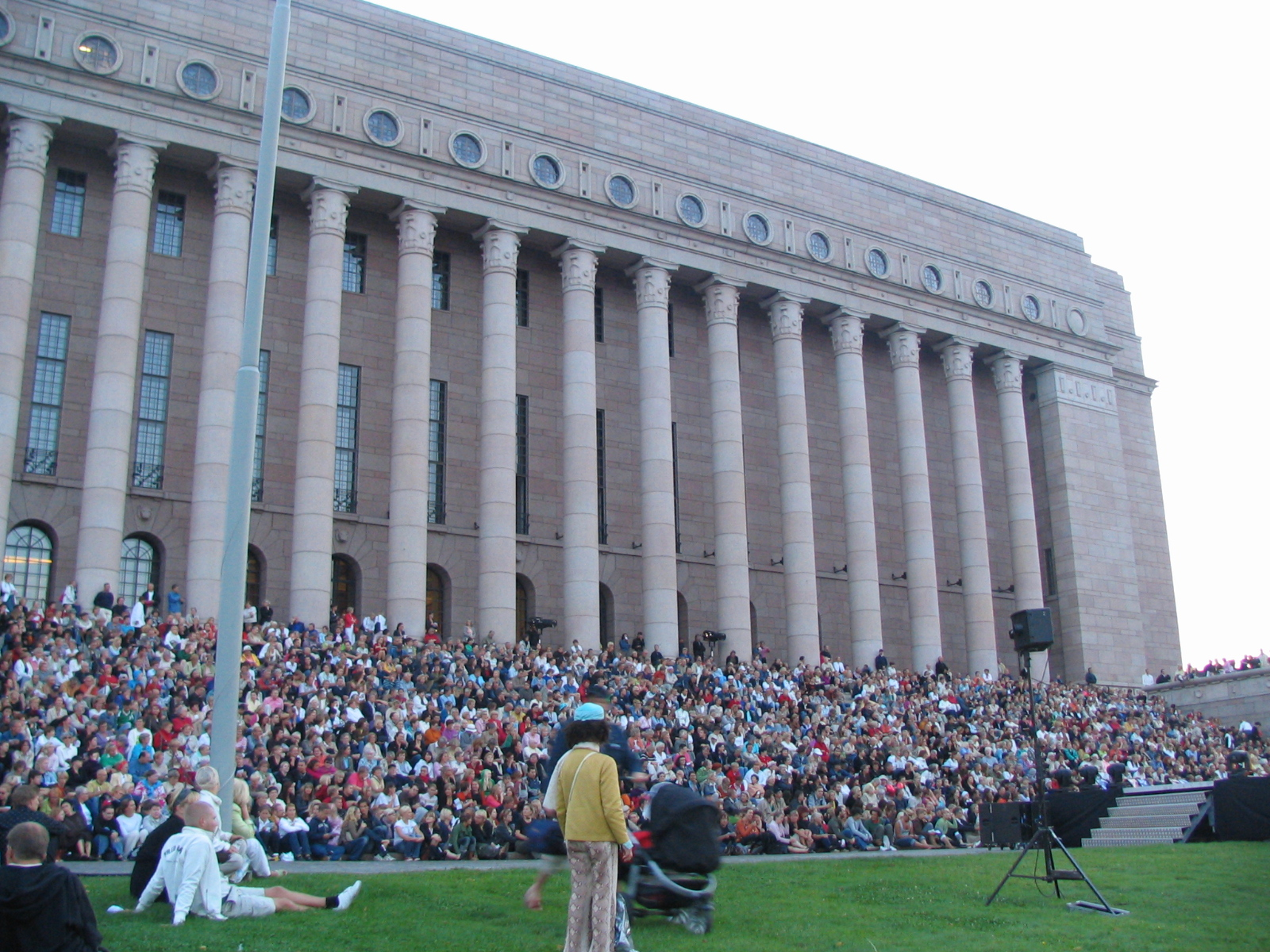 Crowd sitting on stairs of Parliament building of Finland